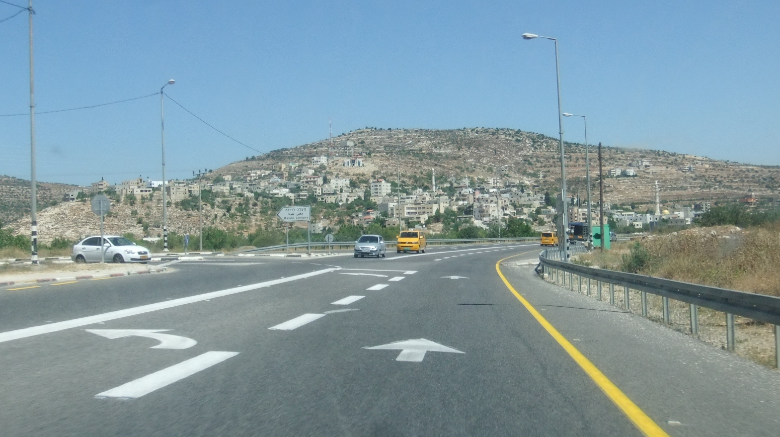 Al-Lubban ash-Sharqiya from route 60, view from the south.